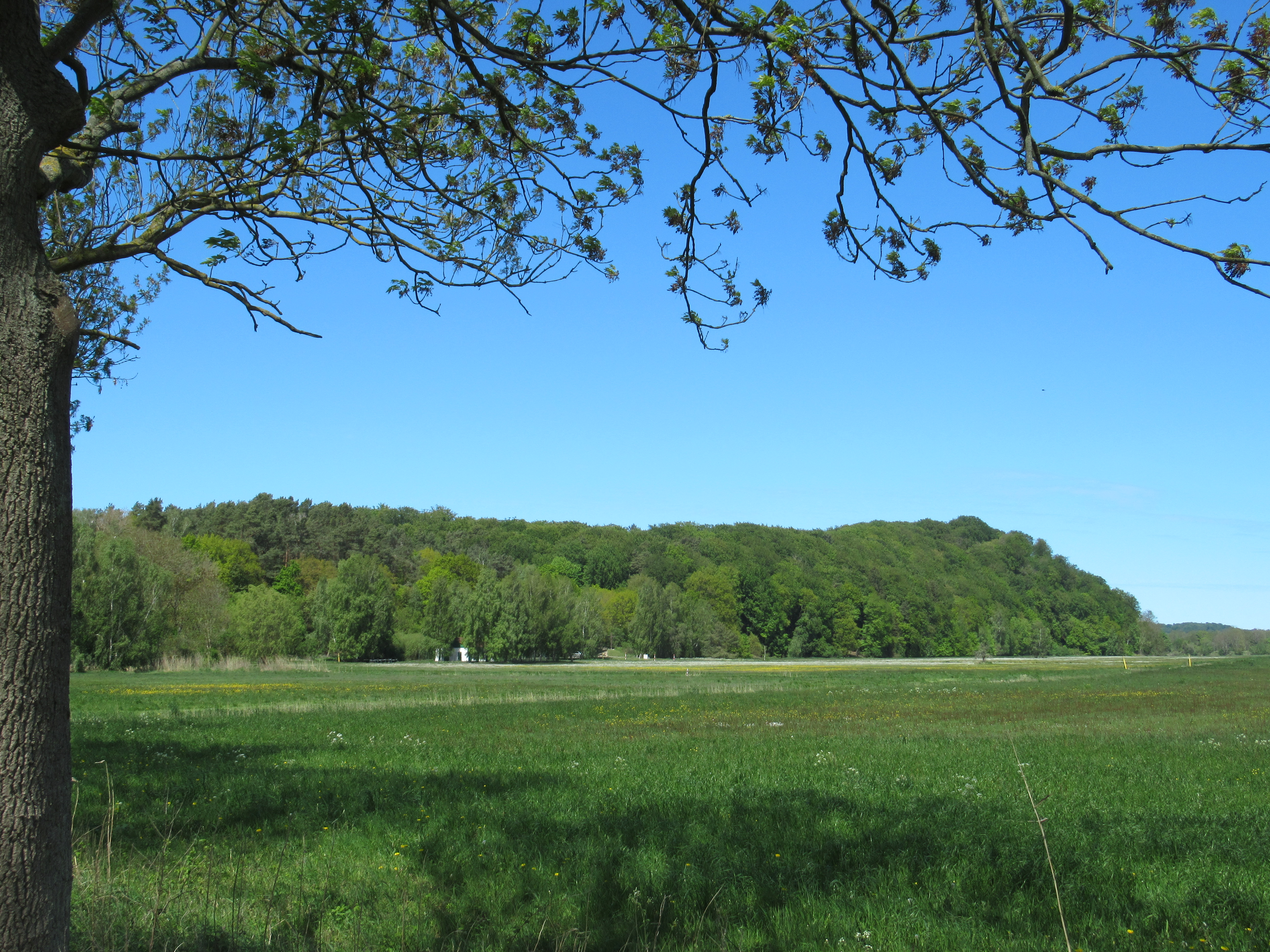 Golm Hill at Usedom